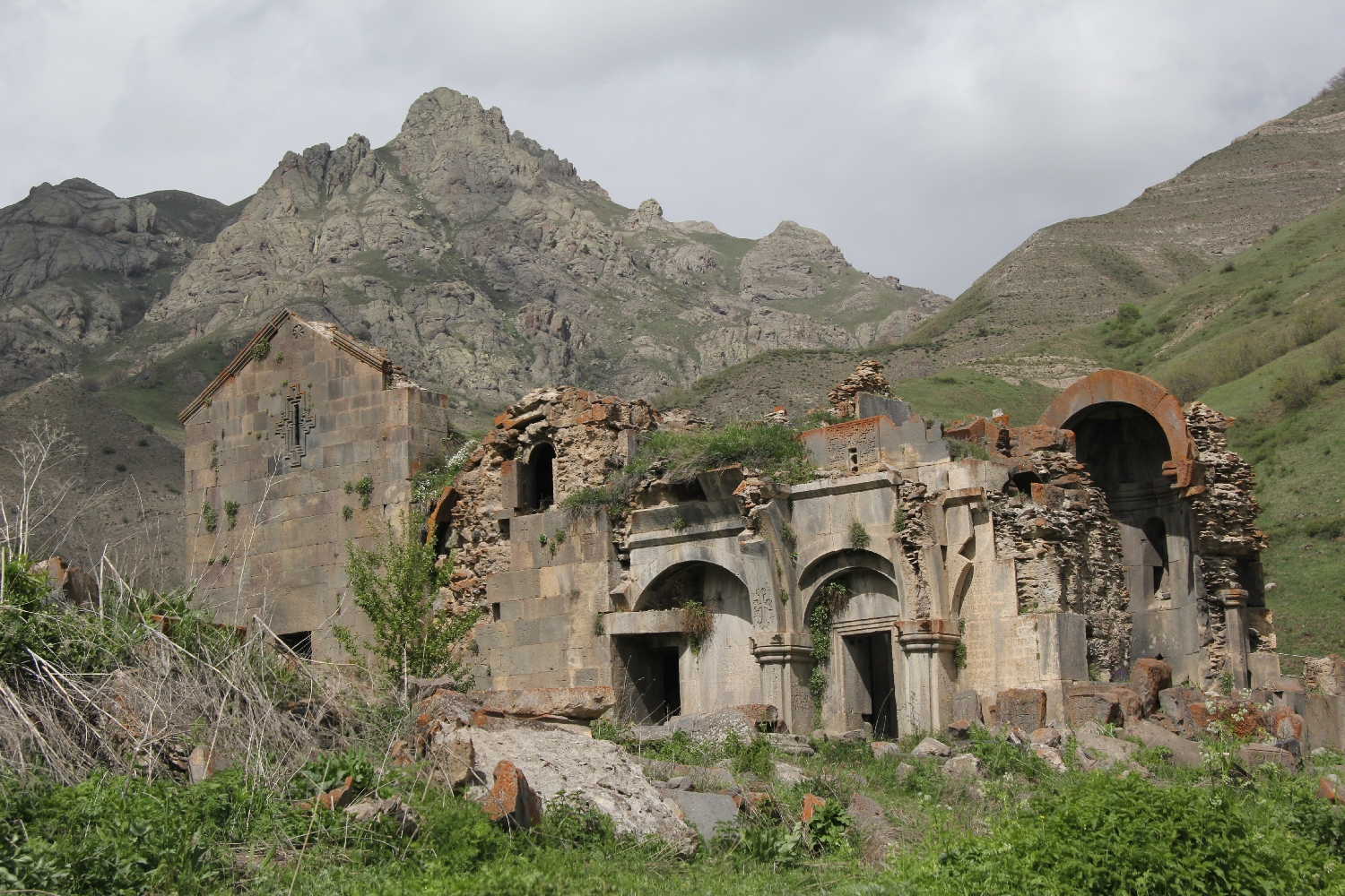 Arates monastery